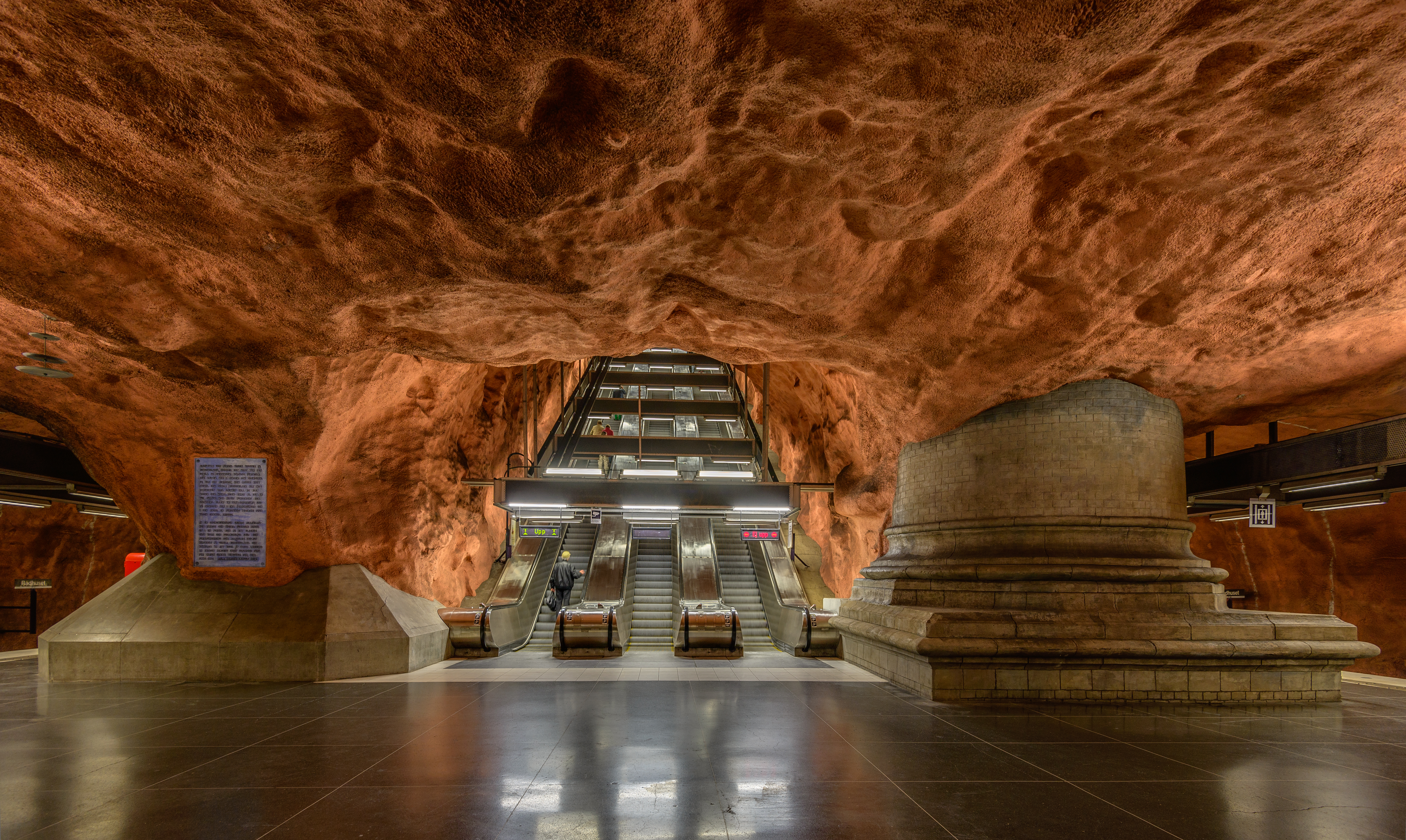 Rådhuset metro station, Stockholm. East entrance/exit.